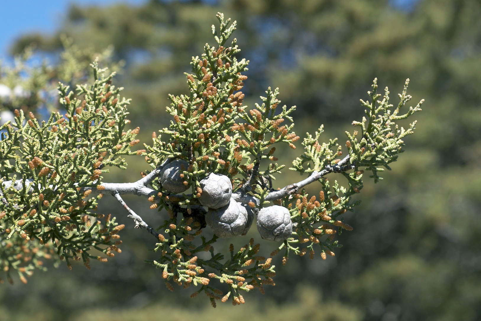 Sargent Cypress Cupressus sargentii, Simmons Trail, Mt. Tamalpais, California